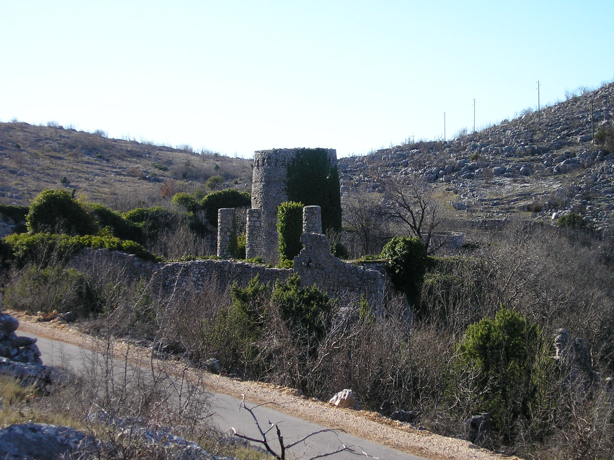 Hutovo fortress